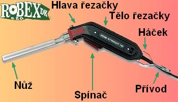 Subscribe of heat cutting machine for cutting styrofoam